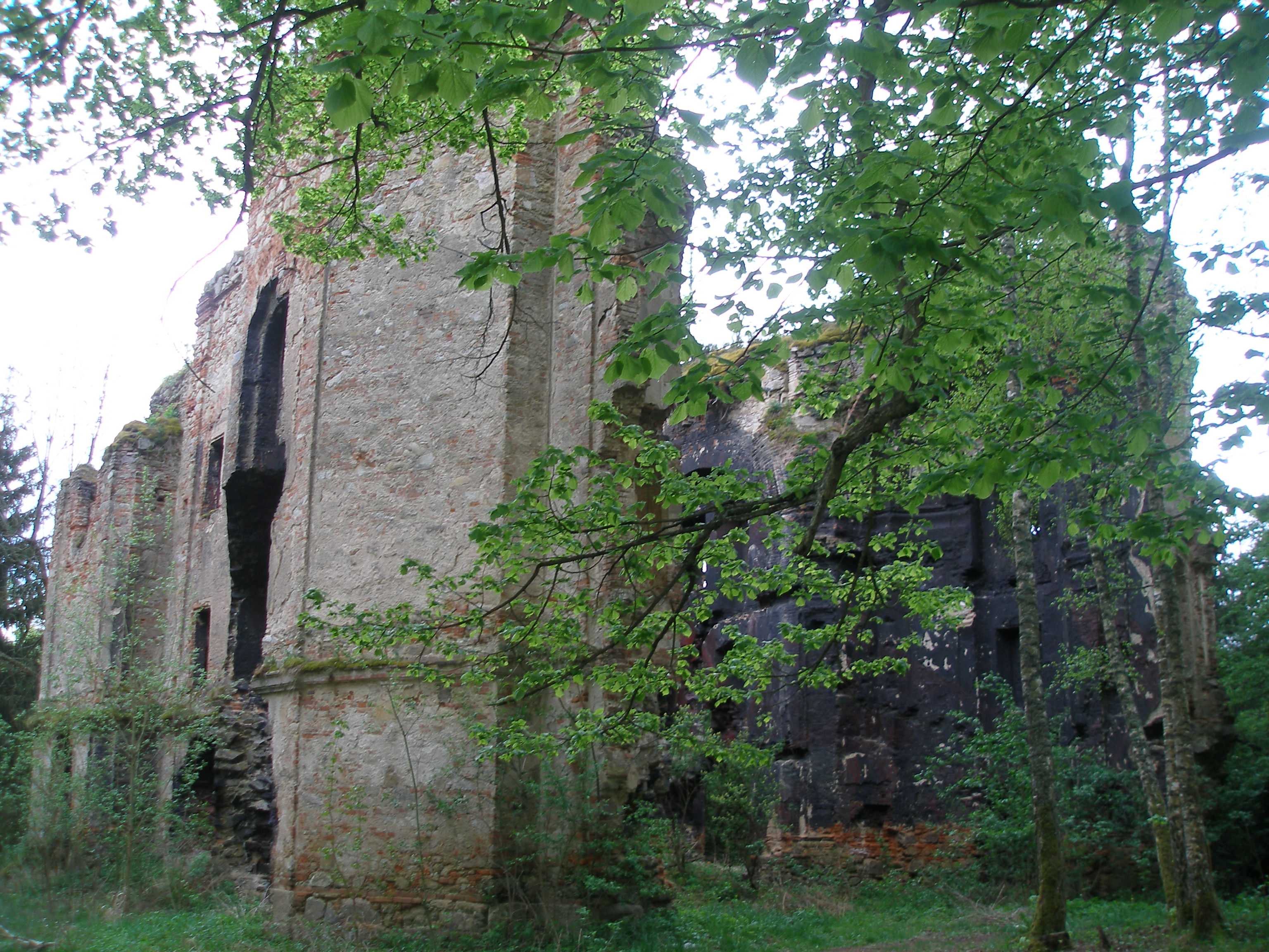 Svatý Jan (Saint John) by Kočov - the ruin of the church